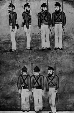 Fauj-i-Khas Sikhs drilling according to French pattern